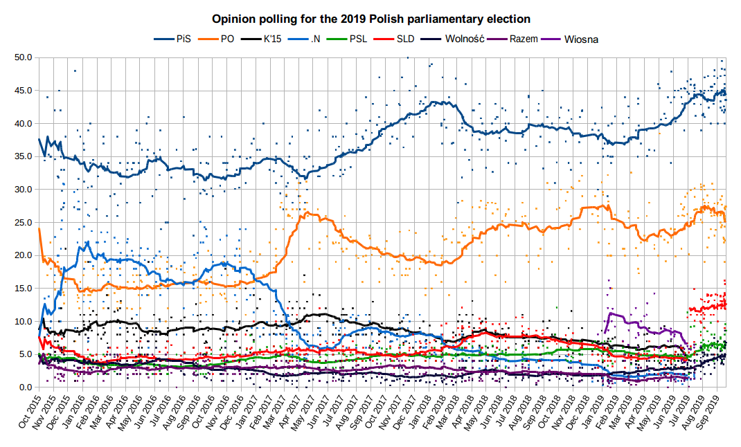 Evolution of voting estimations in Polish opinion polling since the 25 October 2015 general election and during the run up to the next general election, scheduled 2019 at latest. Points represent results of individual polls. Trend lines represent twenty-poll moving averages.